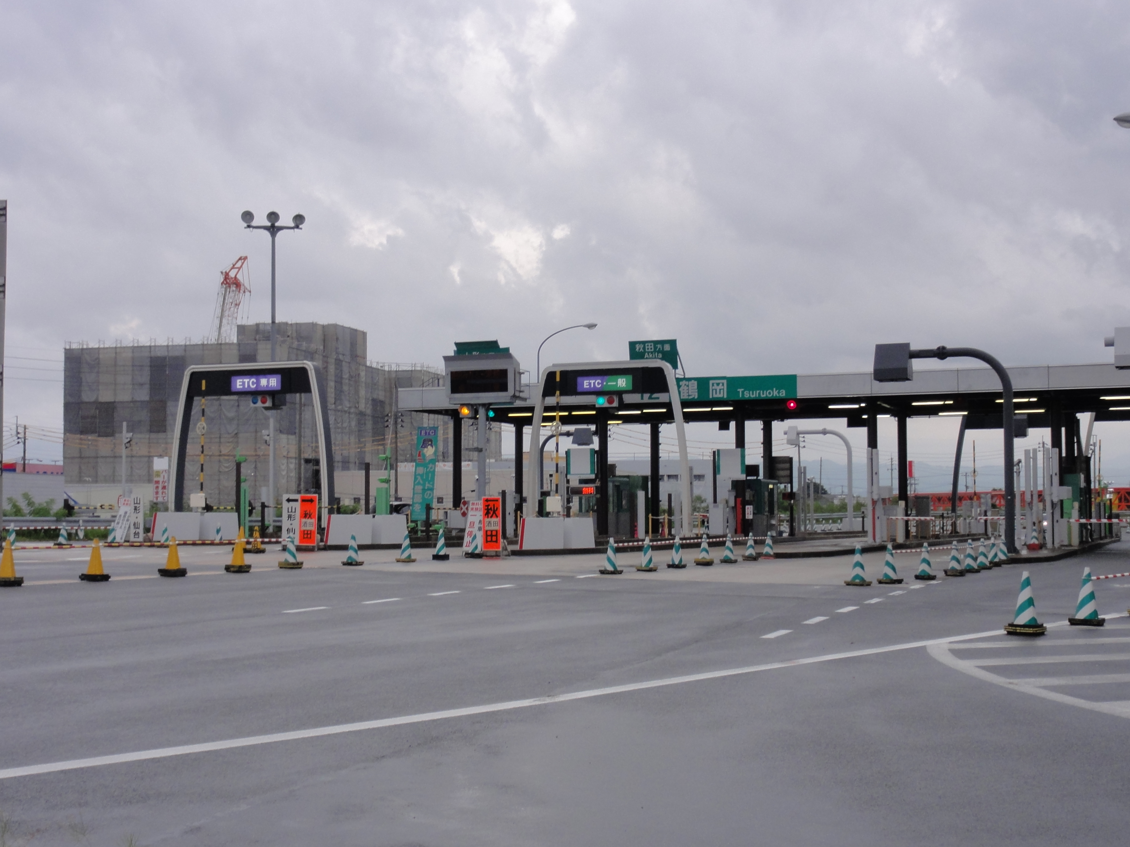 Tsuruoka Interchange, Yamagata Pref., Japan